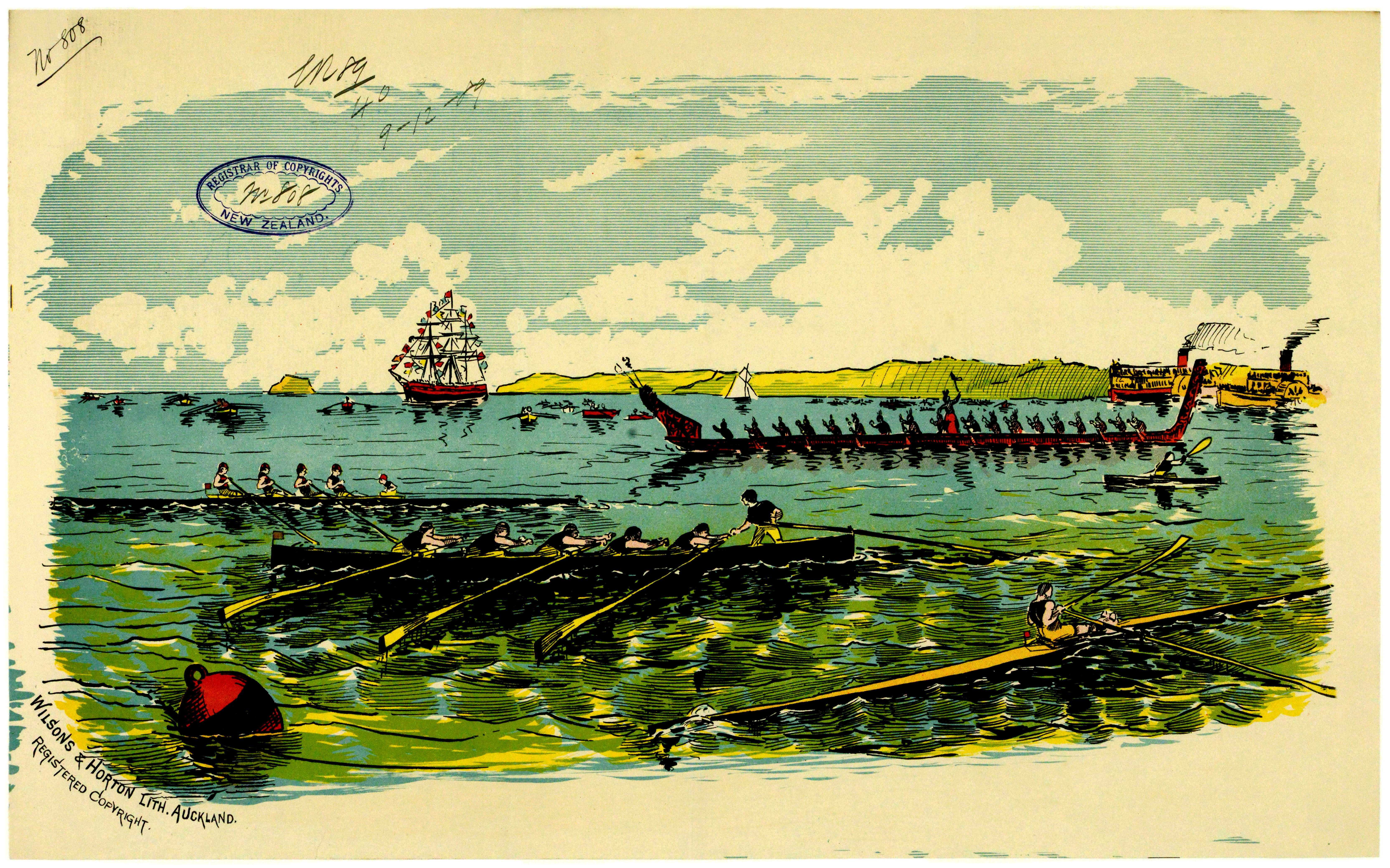 Auckland’s Anniversary Day (29 January) commemorates Lieutenant-Governor William Hobson’s arrival in New Zealand in 1840. Today it is best known for the huge Anniversary Day Regatta on Waitematā Harbour, which has been held every year (except one) since 1850 and is often described as the largest one-day regatta in the world. The first ‘regatta’ on Waitematā Harbour was held on 18 September 1840, the day Hobson’s advance party arrived to found the colony’s new capital (Hobson didn’t set up residence there until March 1841). However the first Anniversary Day regatta was held on 29 January 1842. Horse racing at Epsom was the favoured Anniversary Day event for the next few years, but in 1850 the regatta on Waitematā Harbour was revived. It became an annual event and since that year has been cancelled only once, during the South African War in 1900. In the early years of the regatta a variety of craft provided much interest for spectators. This 1889 print by well-known Auckland artist, Charles Palmer, is an example of the colourful regatta in action. Outriggers, a whaleboat with five oarsmen, a cutter outrigger with four oarsmen, a Rob Roy canoe, a Māori waka, and flagships and paddle steamers all feature in Palmer’s illustration. It comes from the Patent and Copyright collection at Archives New Zealand. Archives reference: PC4 Box 4/ 1889/40 Caption information from New Zealand History: For updates on our On This Day series and news from Archives New Zealand, follow us on Twitter Material from Archives New Zealand.